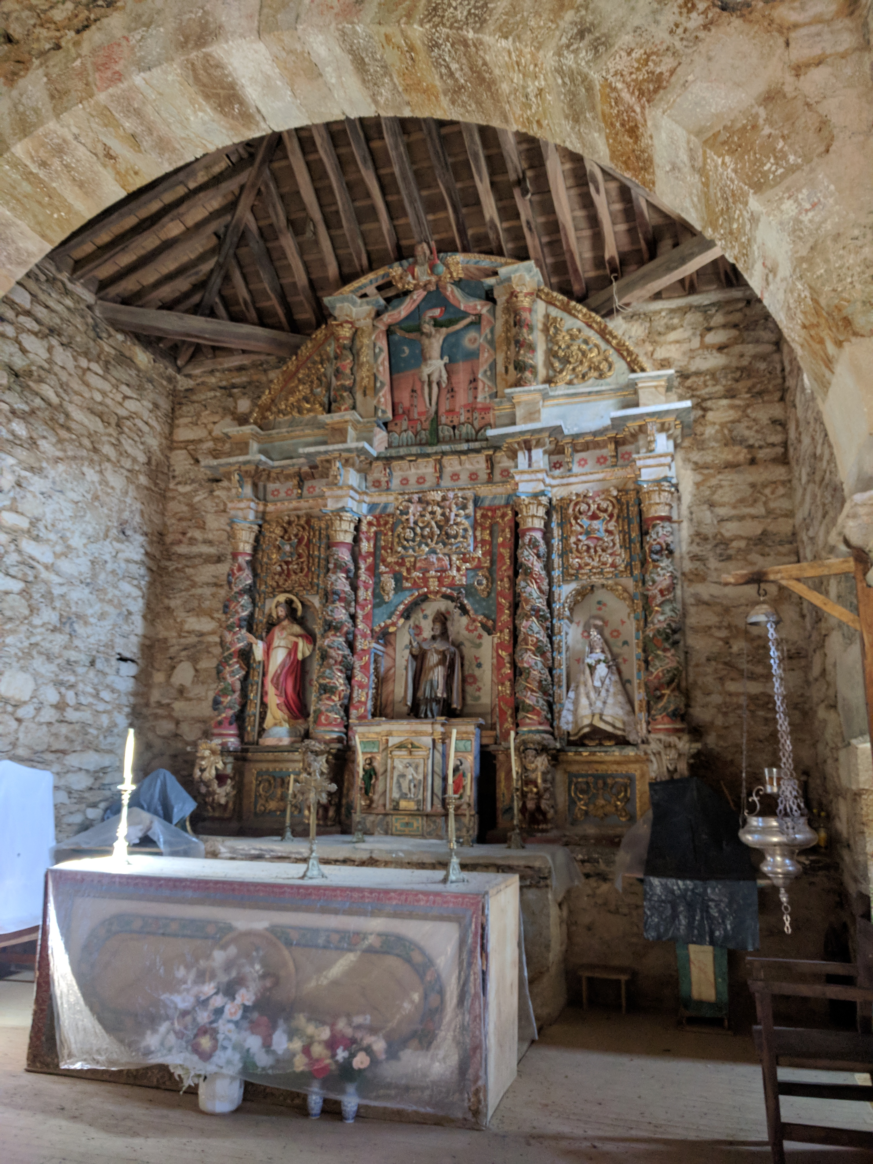 Iglesia de San Martín de Valdavido